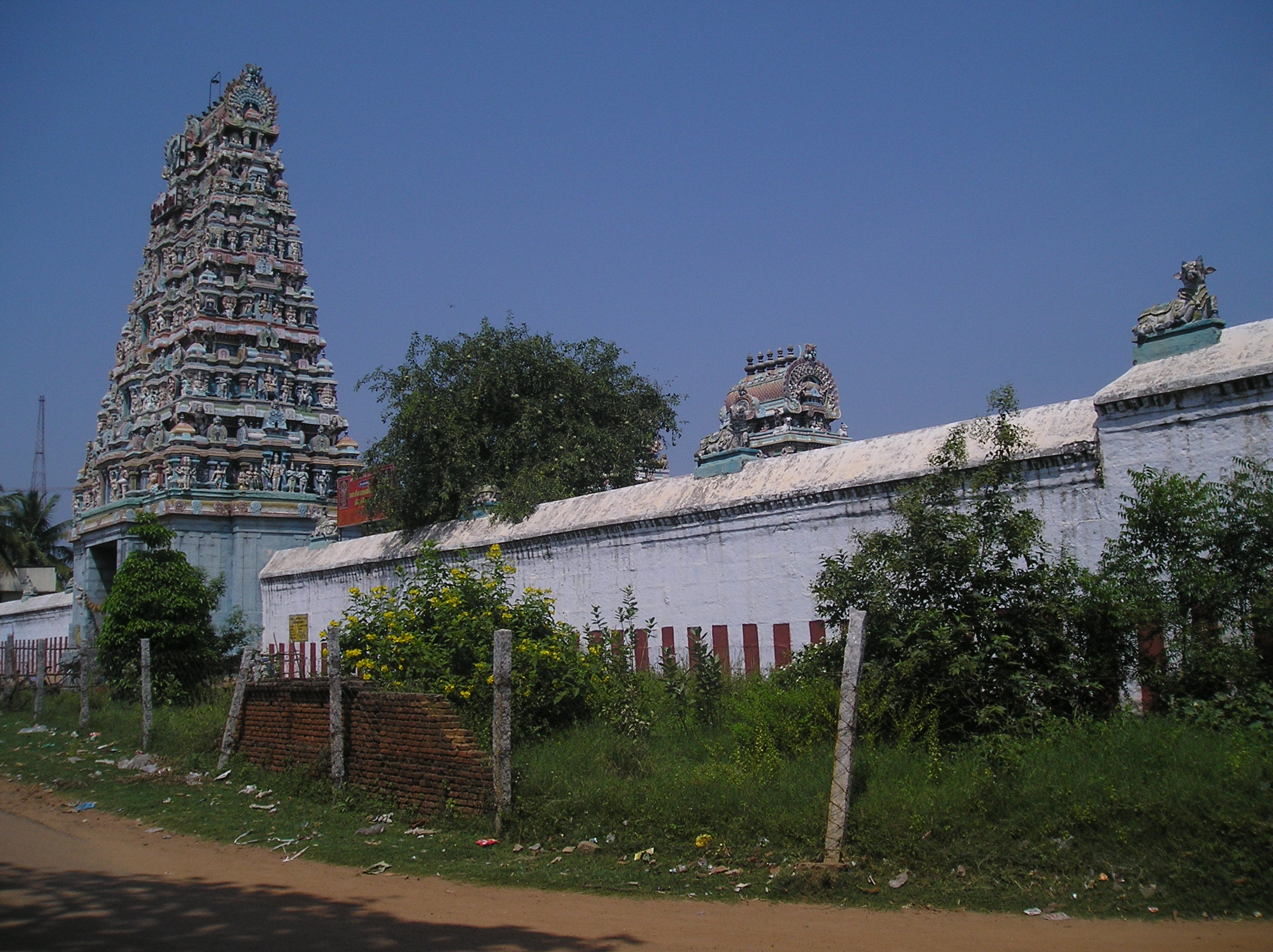 Tirumullaivayil - different angle